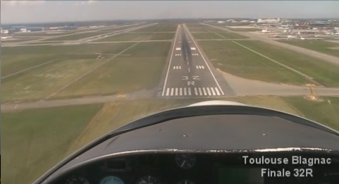 View of Toulouse Blagnac (LFBO) 32 Right Runway, picture taken from an Aquila AT01.